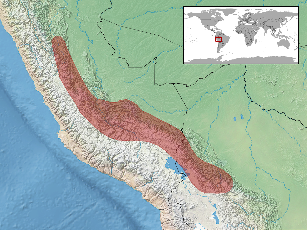 geographic distribution of Bothriopsis oligolepis (Native: Bolivia, Plurinational States of; Peru)